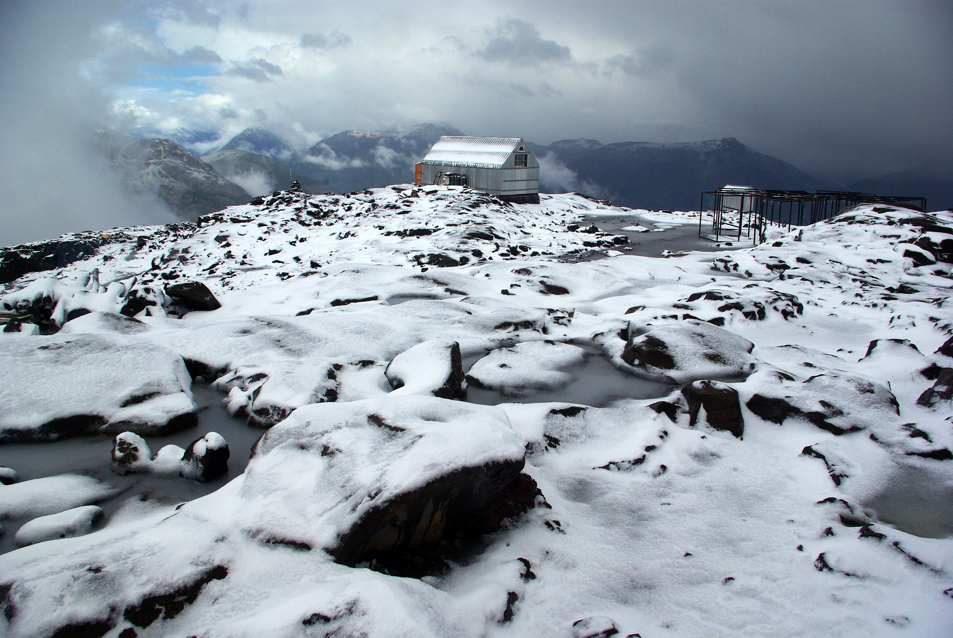 Refugio Otto Meiling, a hut on the Argentinian side of Mount Tronador. A summer's day, after a dumping of fresh snow.